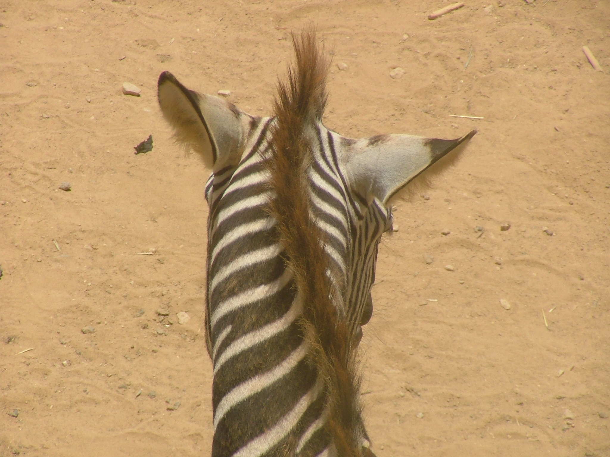 Mane of a Zebra (Equus quagga) at the Jerusalem Biblical Zoo.